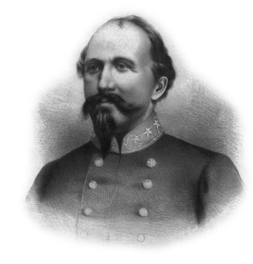 Steel engraving of Confederate Brigadier General John Hunt Morgan; as stated at the lower left corner of the sheet, this was published by Geo E. Perine (George Edward Perine), Nassau, New York